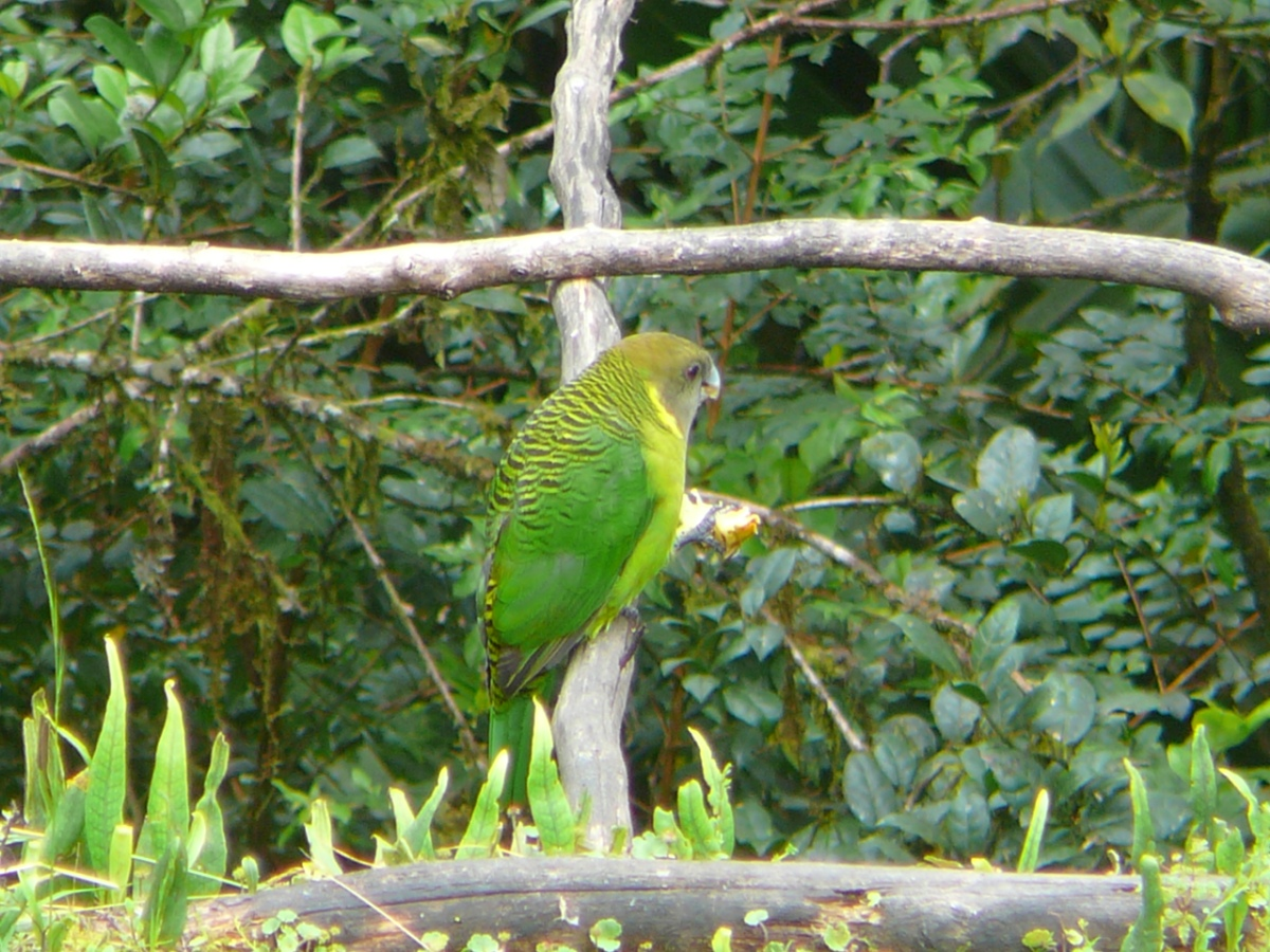 A male Brehm's Tiger Parrot at Kumul Lodge, Mount Hagen, Papua New Guinea.